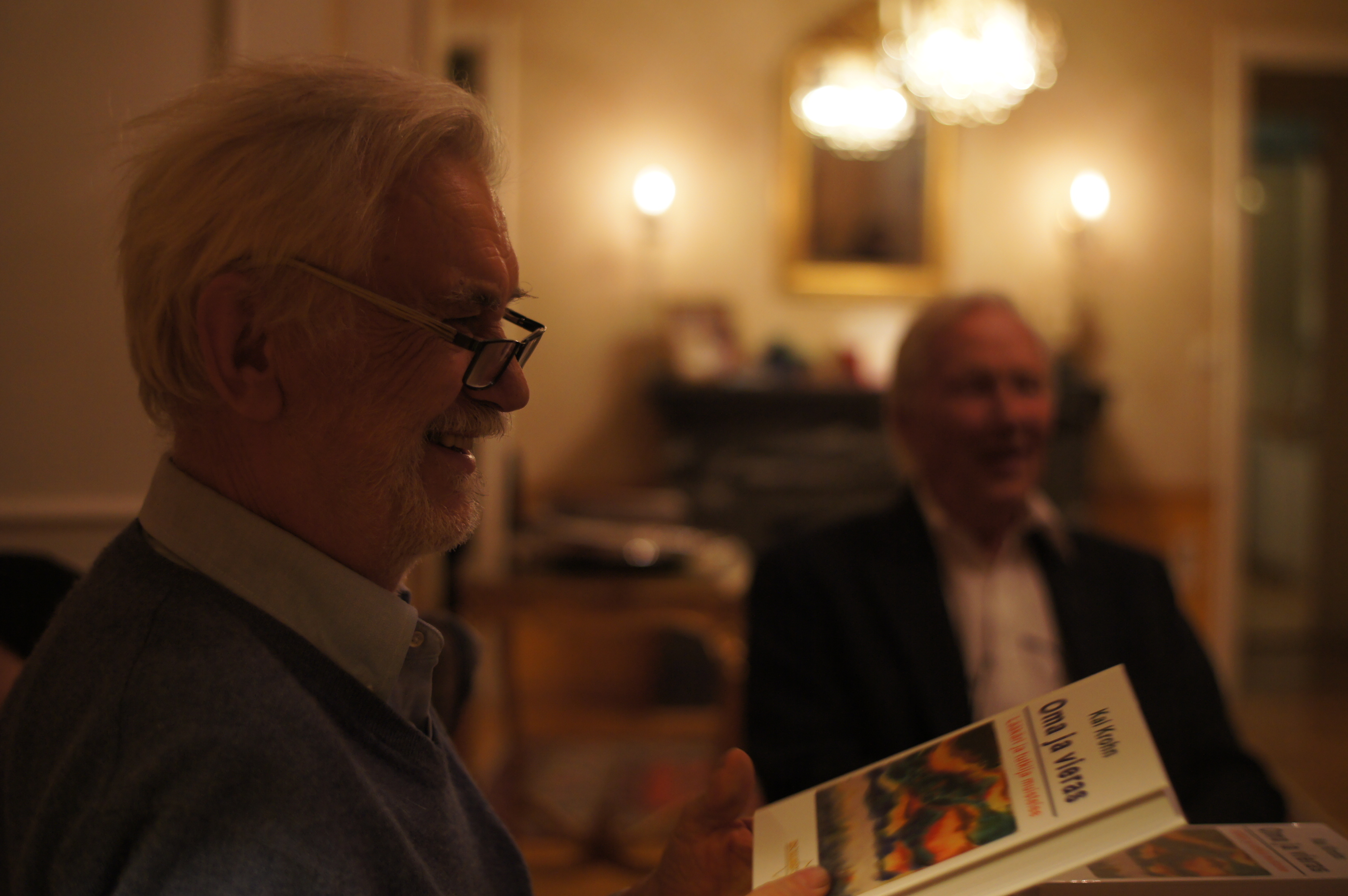 Professor Kai Krohn in 2013 with his memoirs "Oma ja vieras" (Self and non-self)